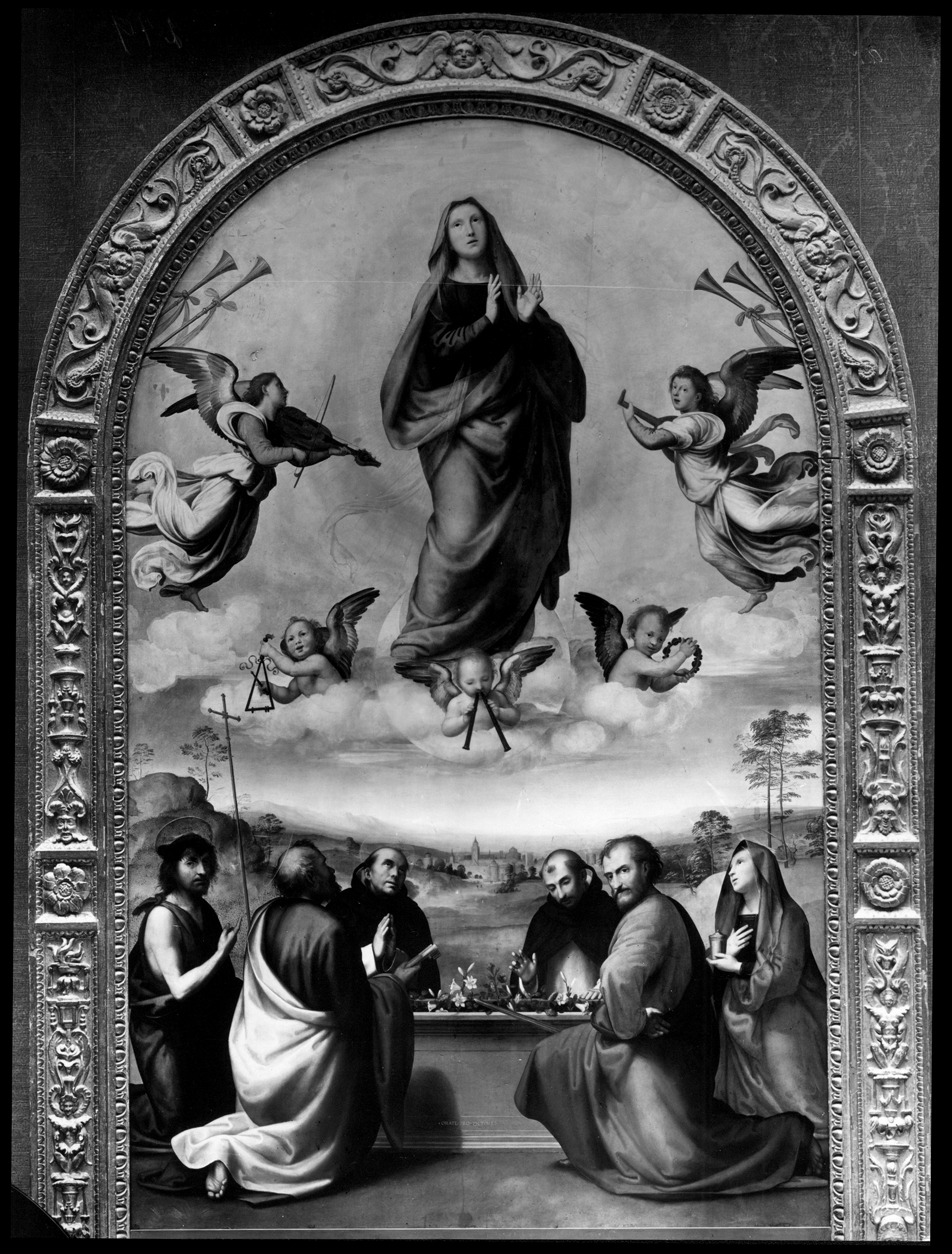 'Assumption of the Virgin', by Fra Bartolomeo, painted ca. 1507-1508. The painting was destroyed or disappeared in Berlin in May 1945, in the Friedrichshain flak tower fire. - Dimensions: 301 x 195 cm - Oil on poplar panel